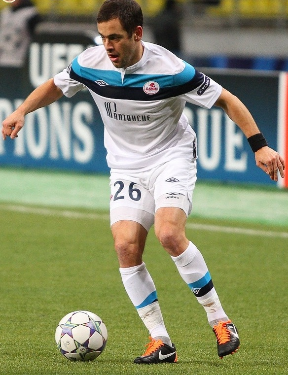 Joe Cole playing for OSC Lille in a Champions League game against PFC CSKA Moscow